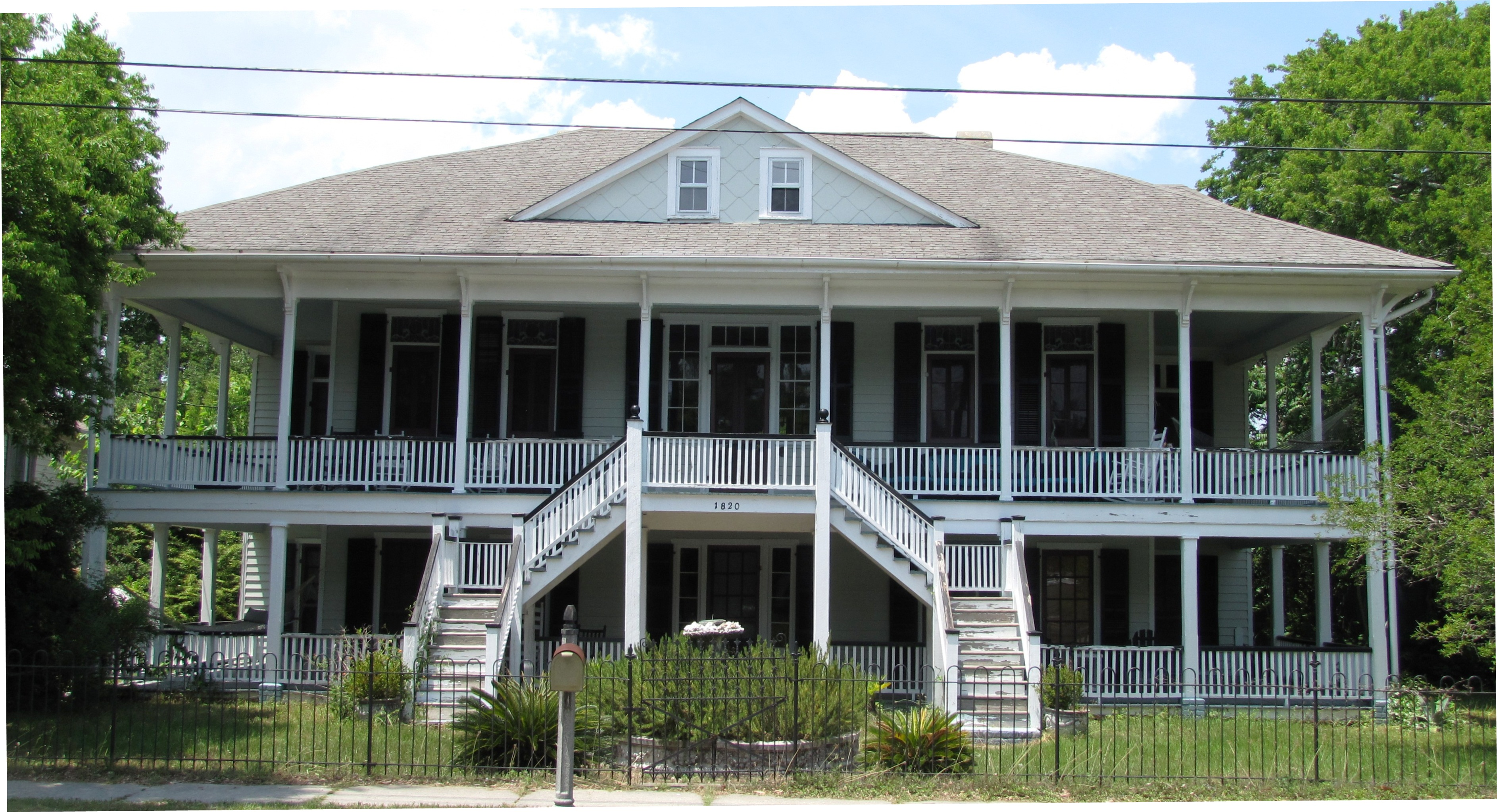 The Dr. John B. Patrick House (1820 Middle St.) on Sullivan's Island in Charleston County, South Carolina, USA. Built around 1870 by Charleston dentist John B. Patrick (1822–1903), this house is now listed on the National Register of Historic Places.